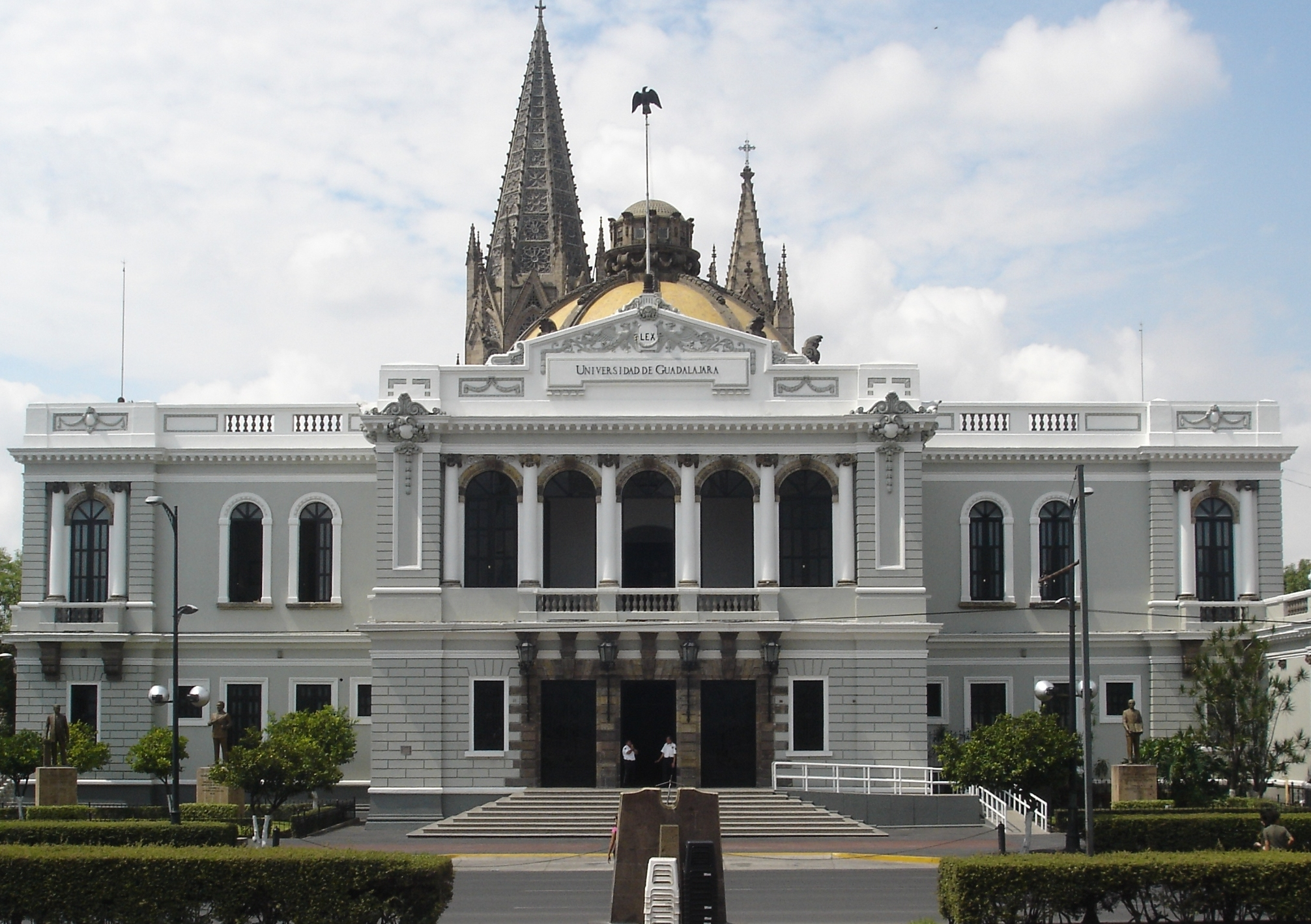 The University of Guadalajara in Guadalajara, Jalisco, Mexico.